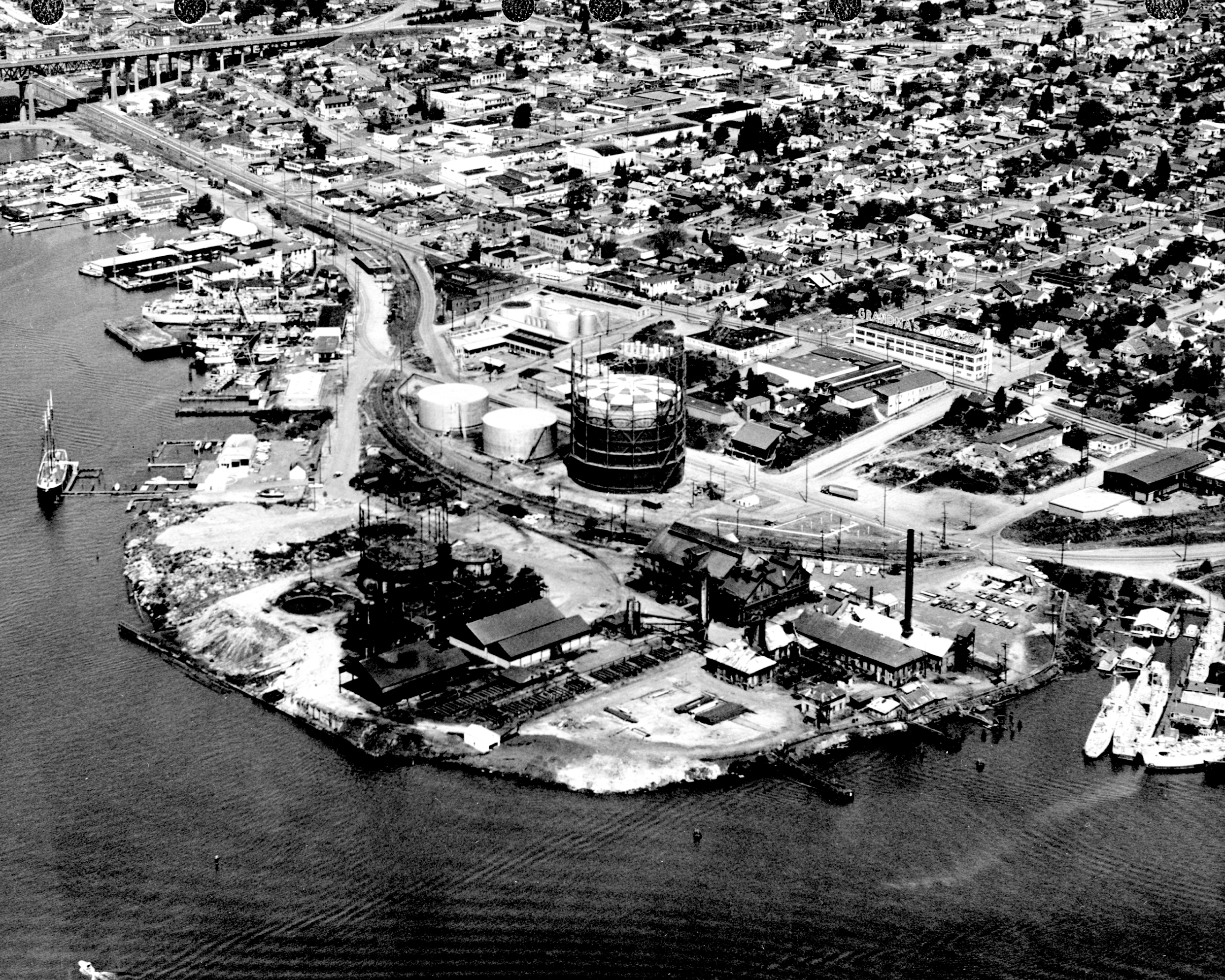 Gas Works Park site, 1966, before the park was built. Item 29073, Don Sherwood Parks History Collection (Record Series 5801-01), Seattle Municipal Archives.